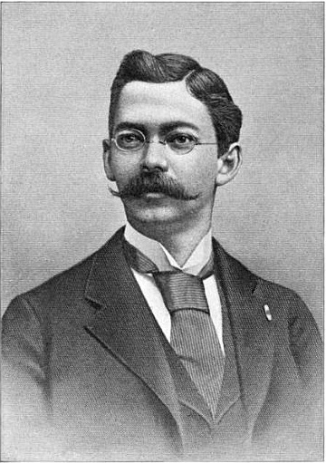 Photograph of Edward Hines (1863-1931), American businessman and lumberman, appearing in 1901 in The Successful American